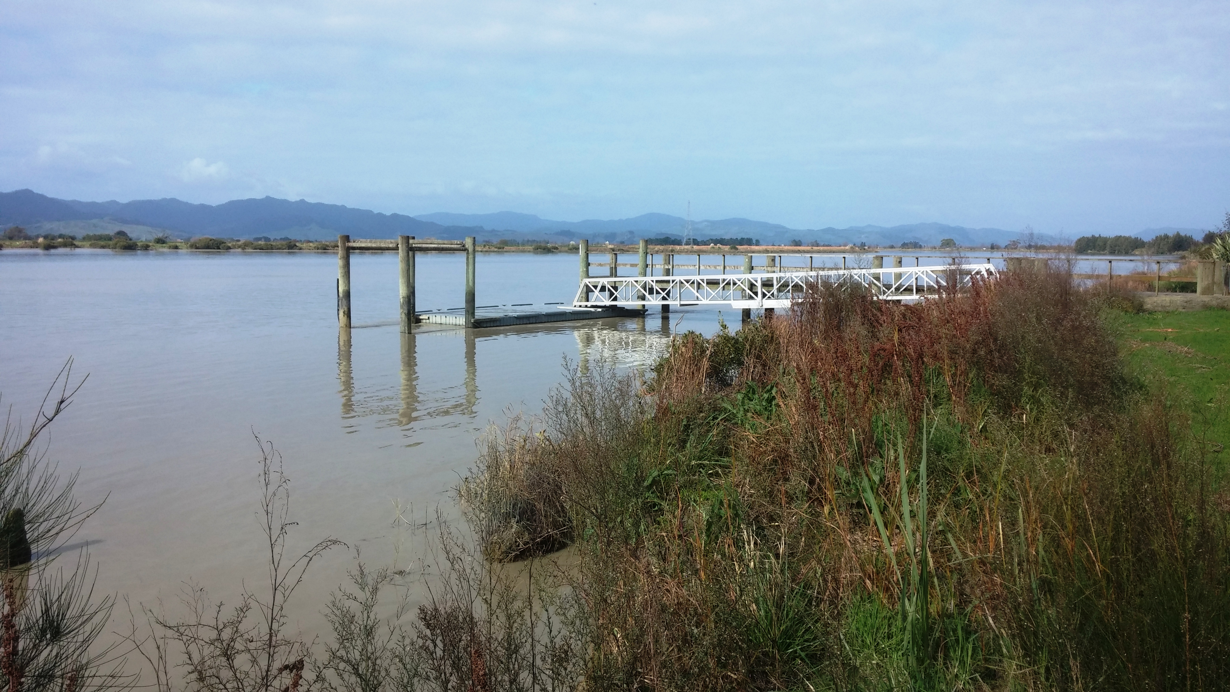 Wharf at Turua, on the Waihou River, Hauraki District, New Zealand